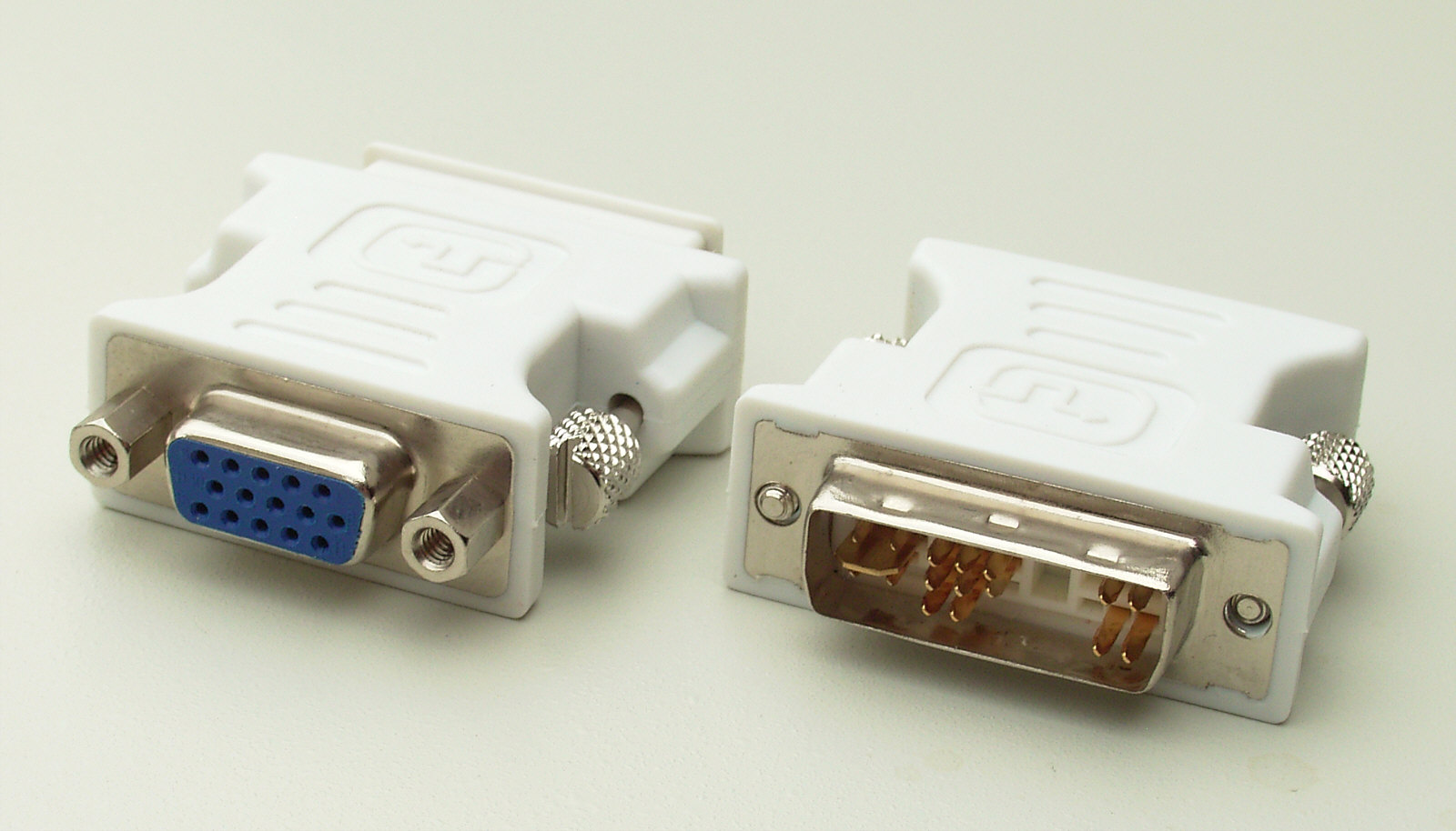 A DVI-I to VGA adapter. The VGA side of the adapter is shown on the left and the right side is for a DVI connection.